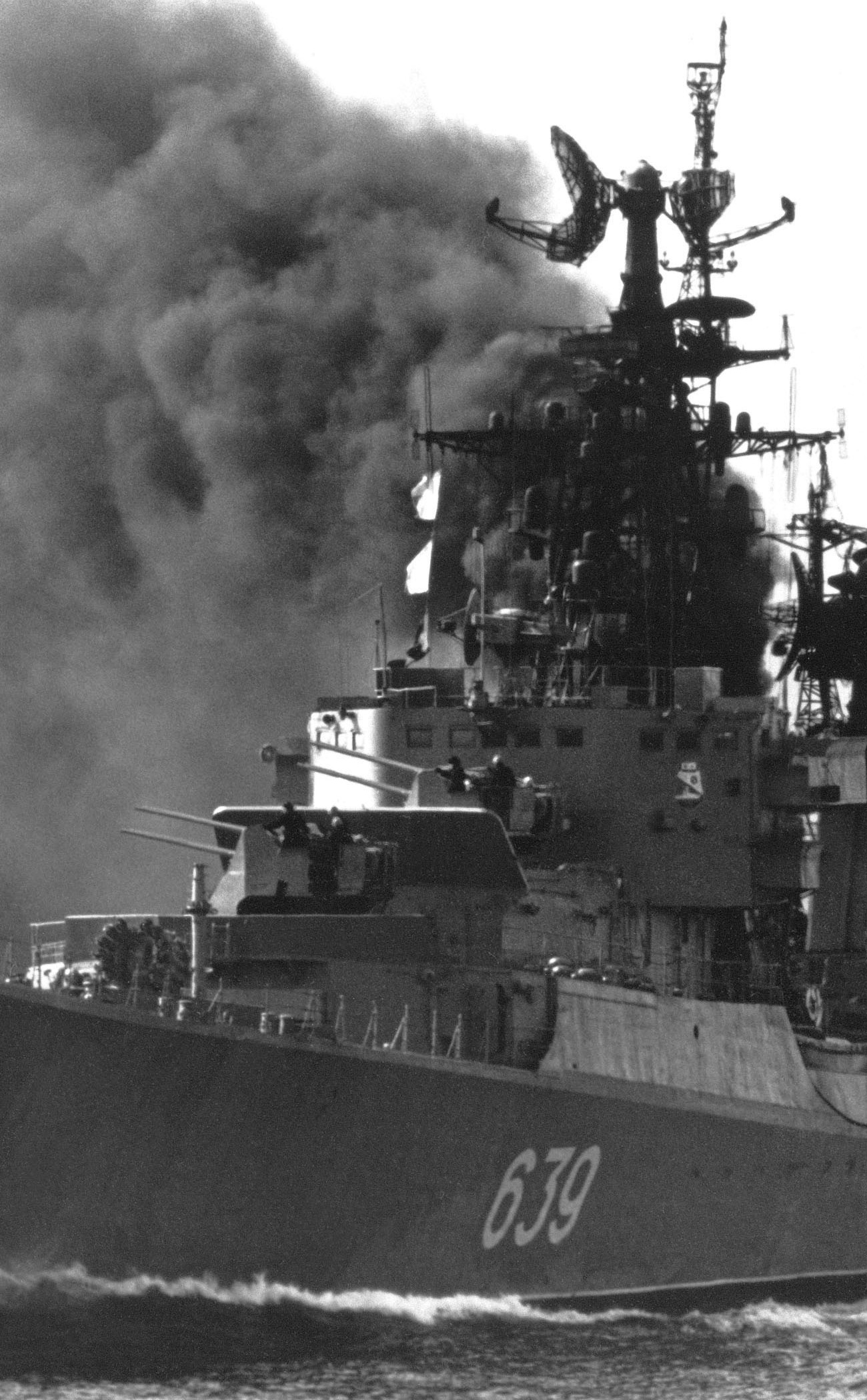 57 mm quadruple universal gun ZiF-75, RBU-6000 and radars on the Soviet large anti-submarine ship «Gremyashchiy».